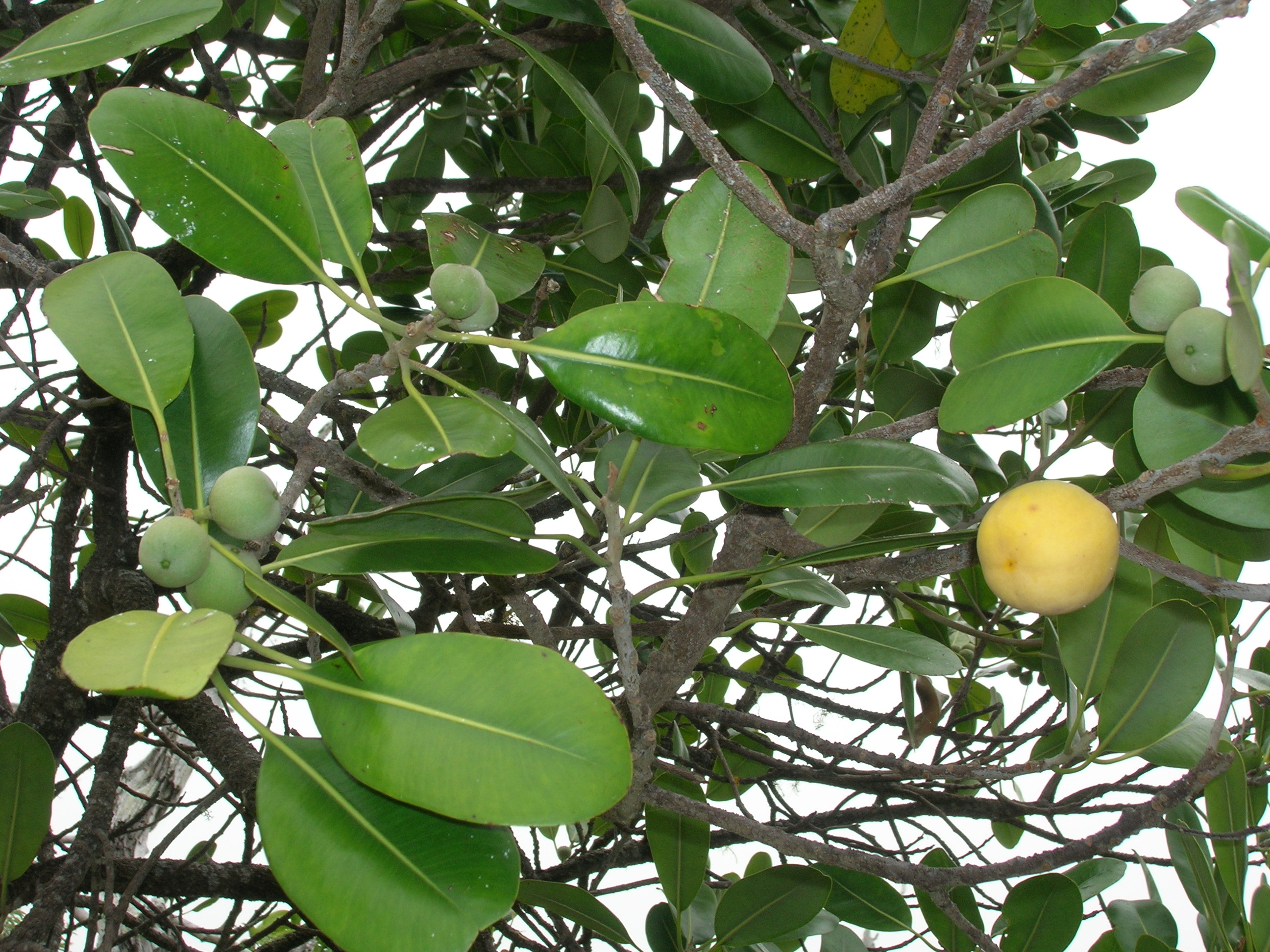 Pouteria sandwicensis (leaves and fruit). Location: Maui, Auwahi